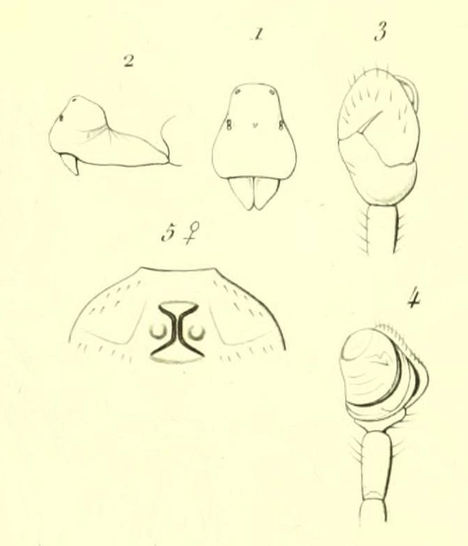 Erigone lusisca = Diplocephalus lusiscus, drawing for the original description